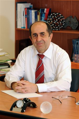 rector